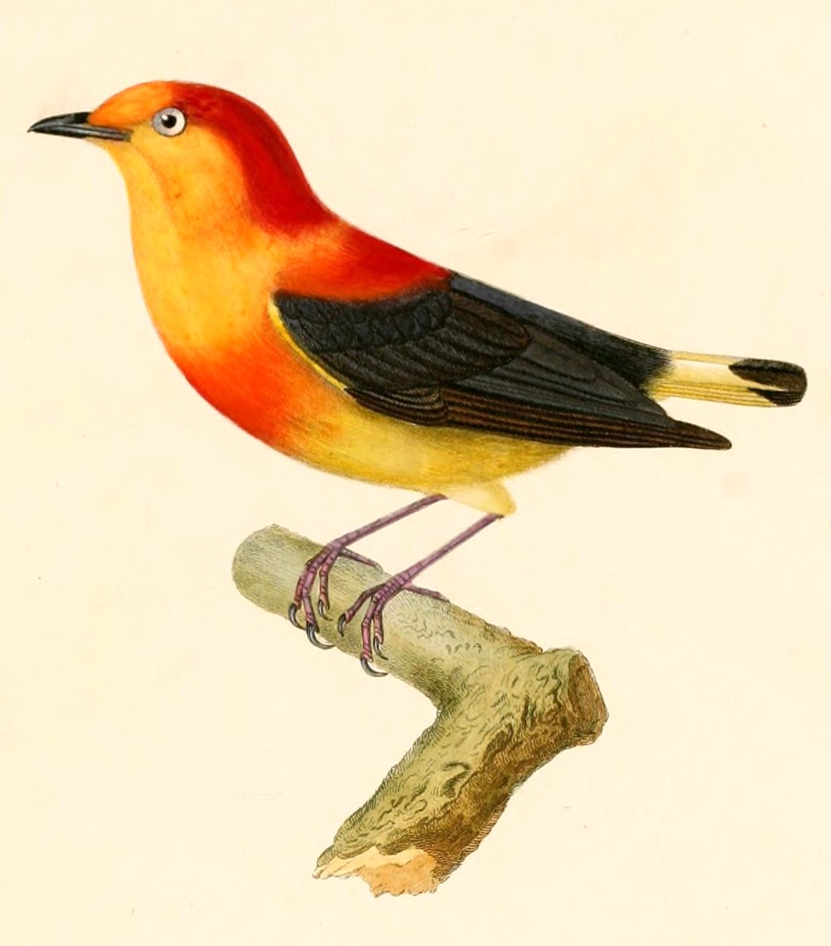 « Pipra fasciata » = Pipra fasciicauda fasciicauda (Subspecies of Band-tailed Manakin)